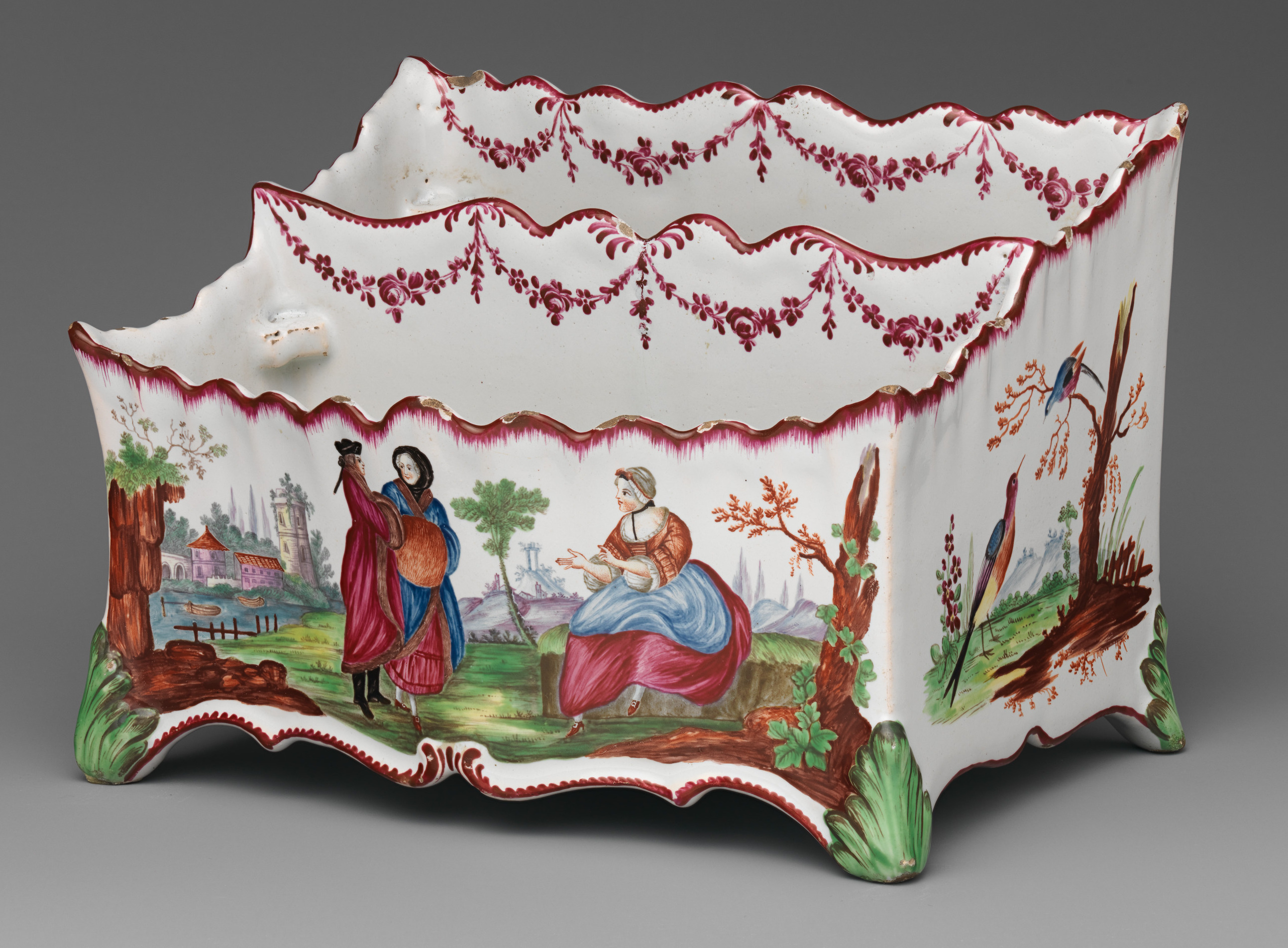 French, Rouen; Jardinière; Ceramics-Pottery